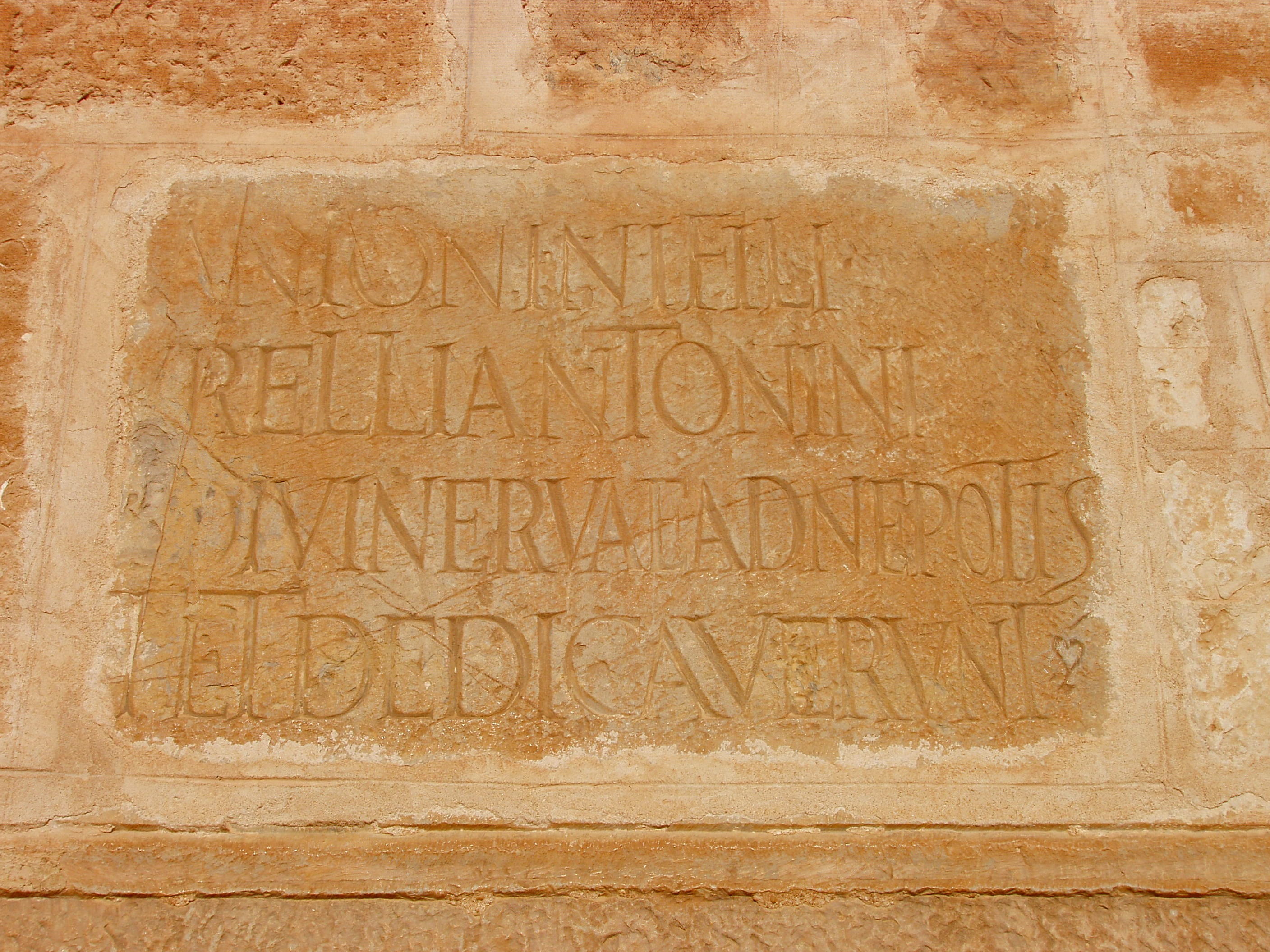 Inscription on the minaret of the Great Mosque of Kairouan. CIL VIII 80 = CIL VIII 11218: [Pro sal(ute?) Imp(eratoris) Caes(aris) L(uci) Septimi Severi Pii Pertinacis Aug(usti) Arab(ici) Adiab(enici) Par]thici maximi div[i] M(arci) Antonini fili(i) [dici Commodi fratris] / [divi Pii nep(otis) divi Hadriani pron(epotis) divi Traiani Parthici abn(epotis) divi Nervae adn(epotis) et Impe]ratoris Caesaris M(arci) [A]urelli(!) Antonini [Pii Felicis Augusti] / [Imp(eratoris) Caes(aris) L(uci) Septimi Severi Pii Pertinacis Aug(usti) f(ilii) divi M(arci) Antonini nep(otis) divi Pii pron(epotis) divi Hadriani abn(epotis)] divi Traiani adnep[otis] divi Nervae adnepotis [3] / [3 publi]cae aedem fecerunt et dedicaverunt